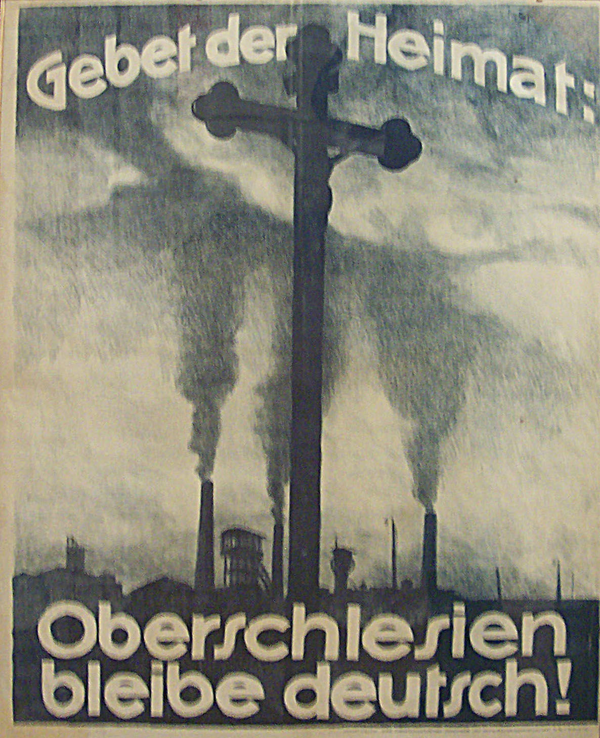 Poster from the Upper Silesia plebiscite 1921"Prayer of the homeland""Upper Silesia shall remain German"